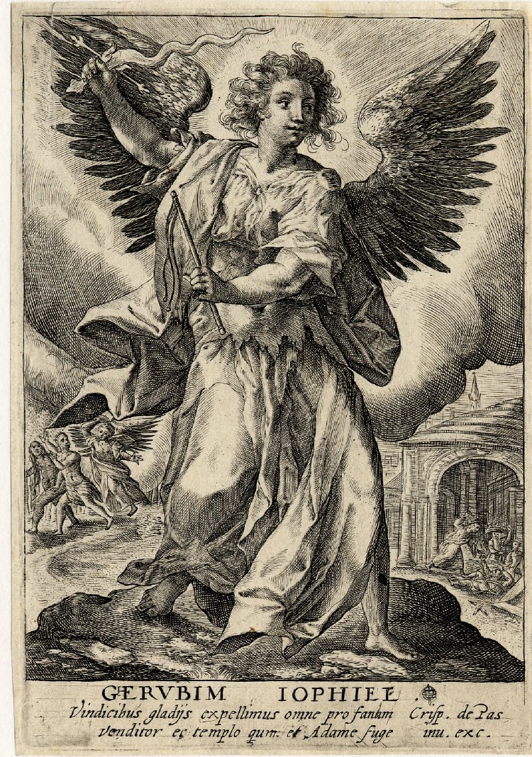 Plate from a set, archangel Jophiel holding a flaming sword and a scourge with three cords. In the background are the following scenes depicted: "the Expulsion from Paradise" and "the Expulsion of the Moneychangers". First state, engraving with etching.